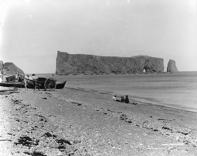 Percé Rock, Gaspé, Quebec, Canada.